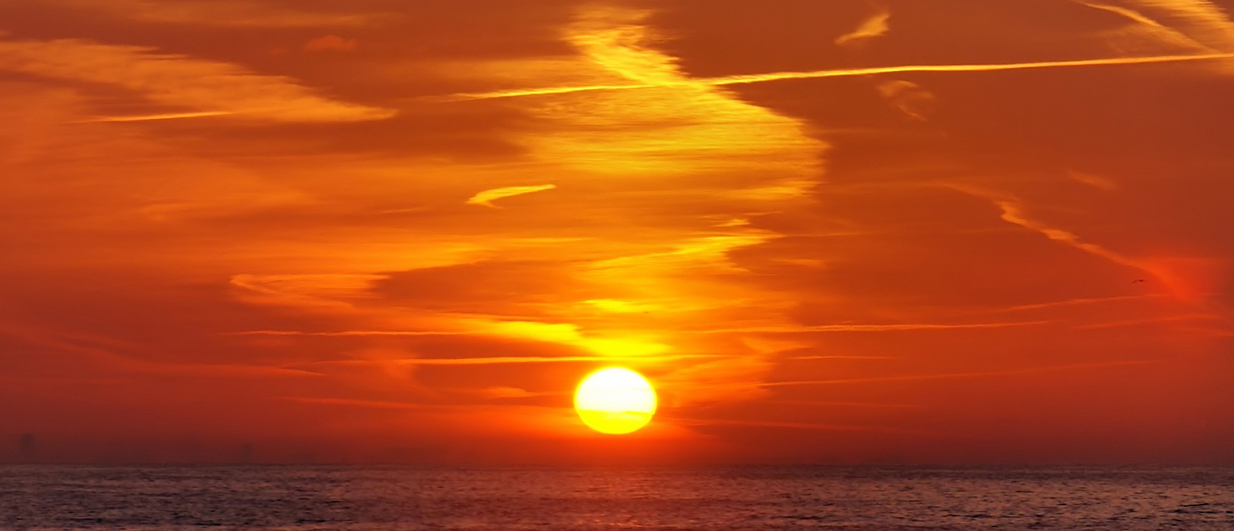 Red sunrise over Oostende, Belgium. (retouch by Fukutaro)